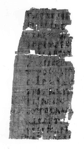 Papyrus 79 recto